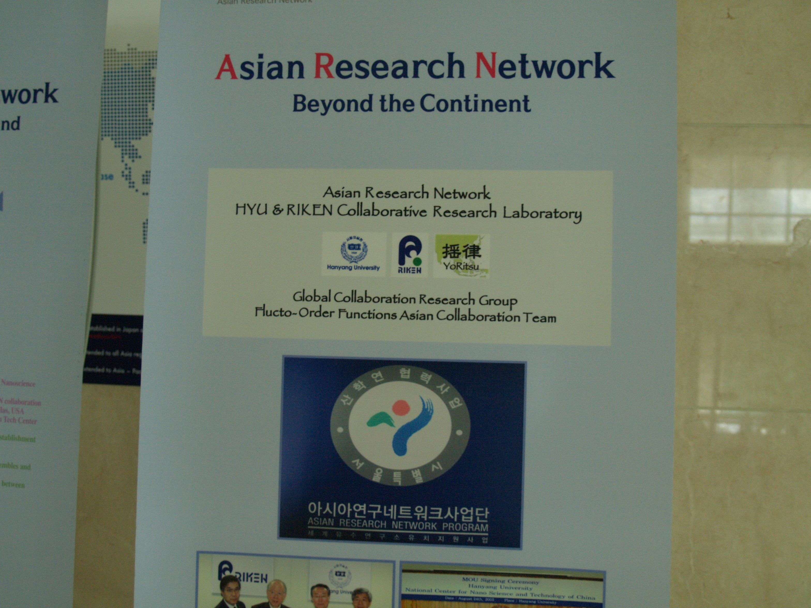 Information of ARN. Research members and sponsors.